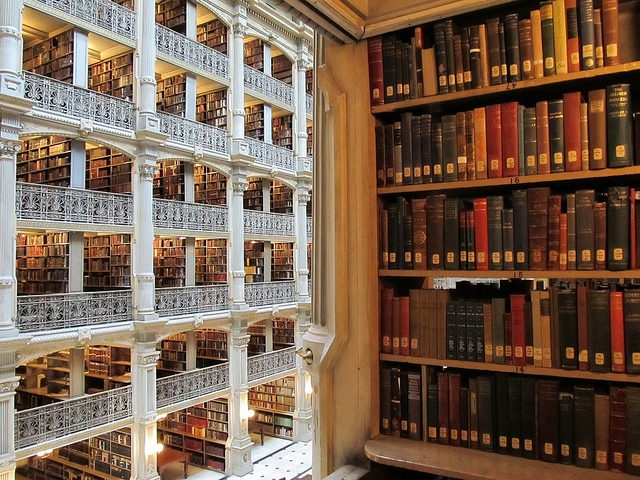 Interior view of the George Peabody Library taken from the third floor. Shows stacks and atrium.